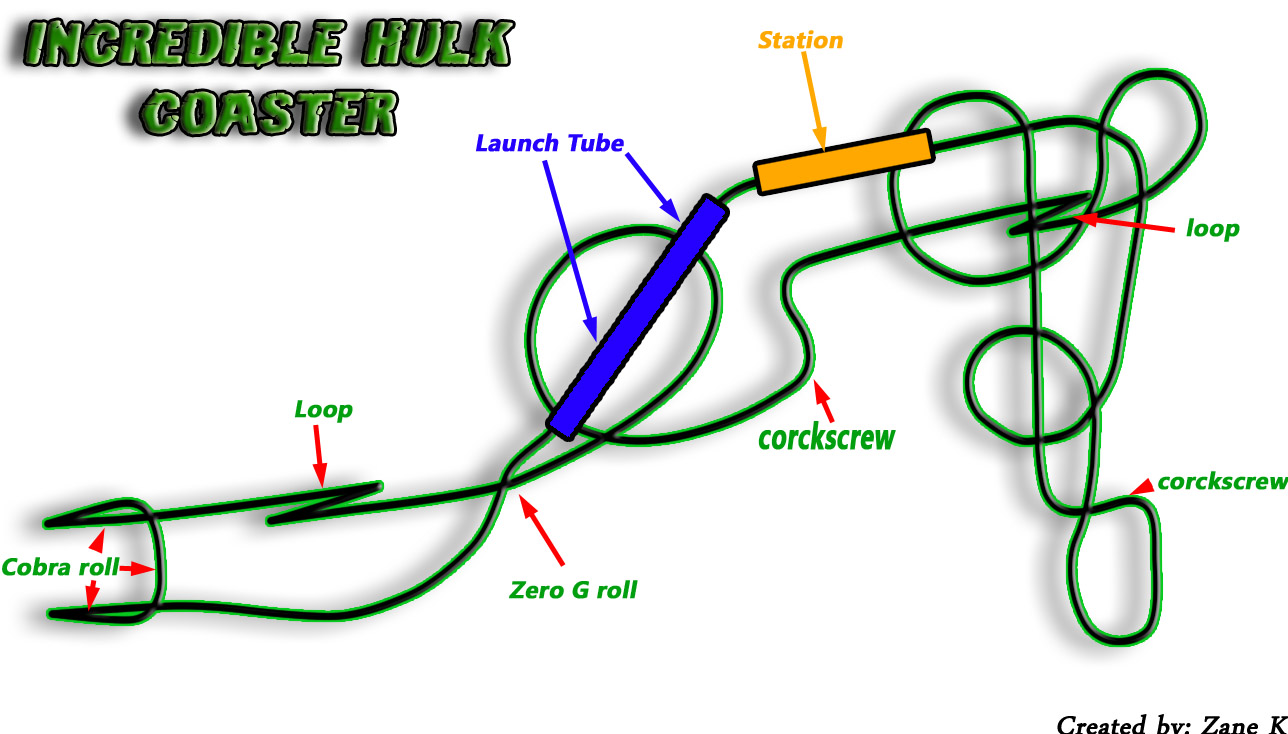 The layout of the Incredible Hulk coaster.